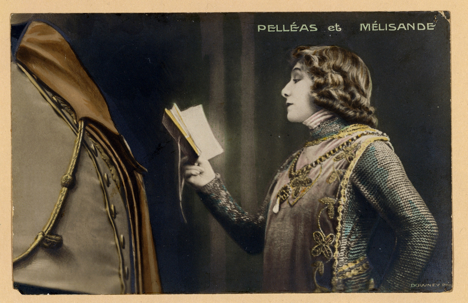 Postcard; Sarah Bernhardt in the play: "Pelléas et Mélisandre" by the Belgian author Maurice Maeterlinck